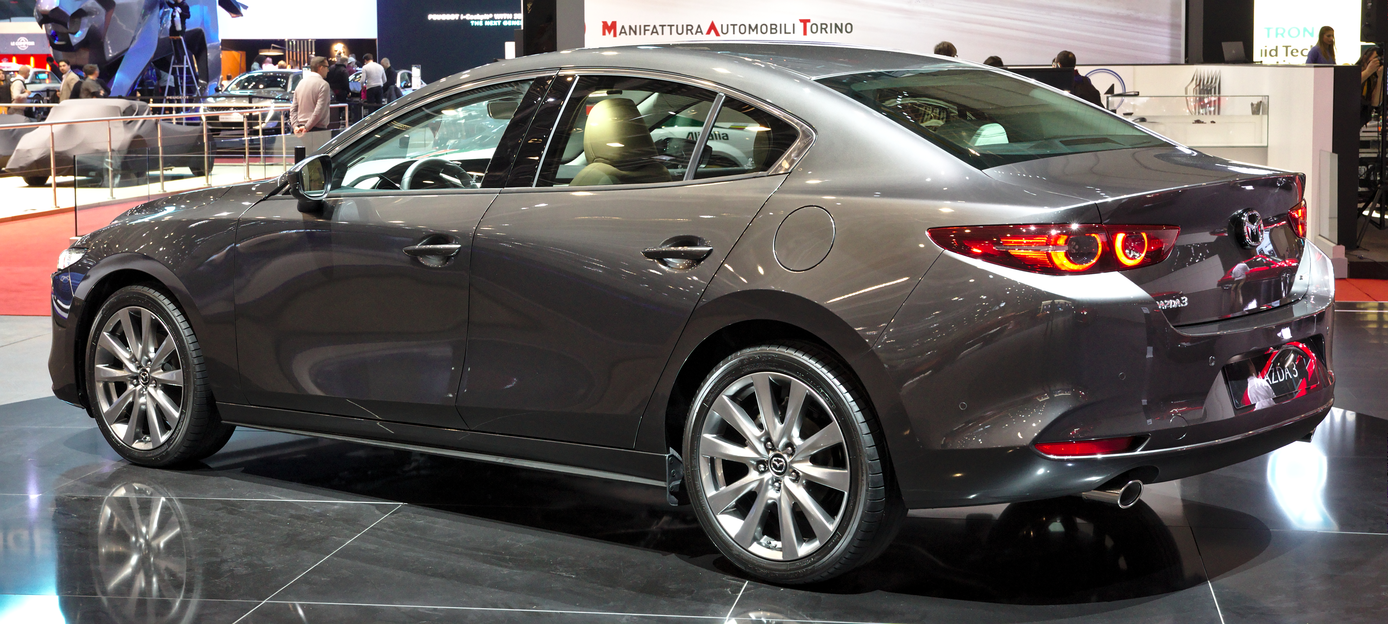 Mazda 3 Sedan at Geneva Motor Show 2019